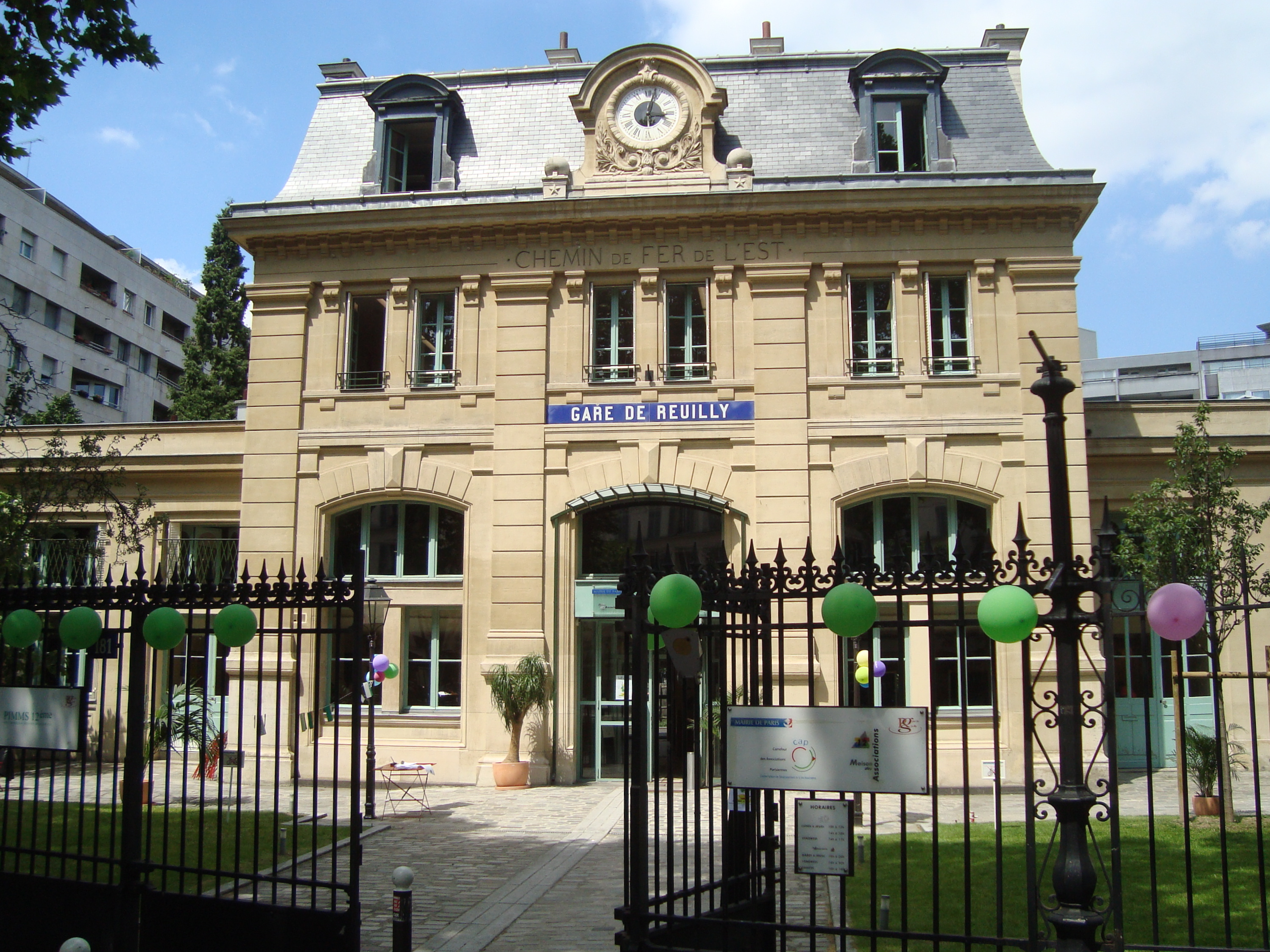 View of the Gare de Reuilly in Paris